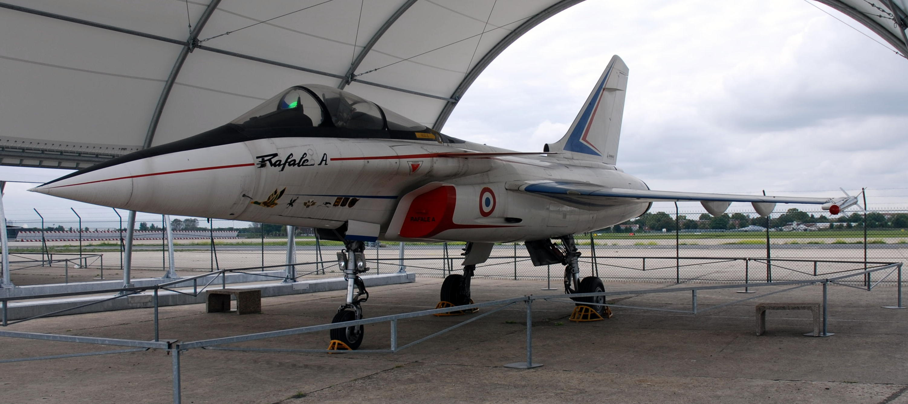 Photo ref; Nikon-D80-2013-DSC_1106 (Edited)